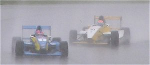 Formula Renault Brasil, Rd.1 Curitiba: #1 Vinicius Quadros(left, Bassani Racing), #10 Douglas Soares(right, Prop Car)